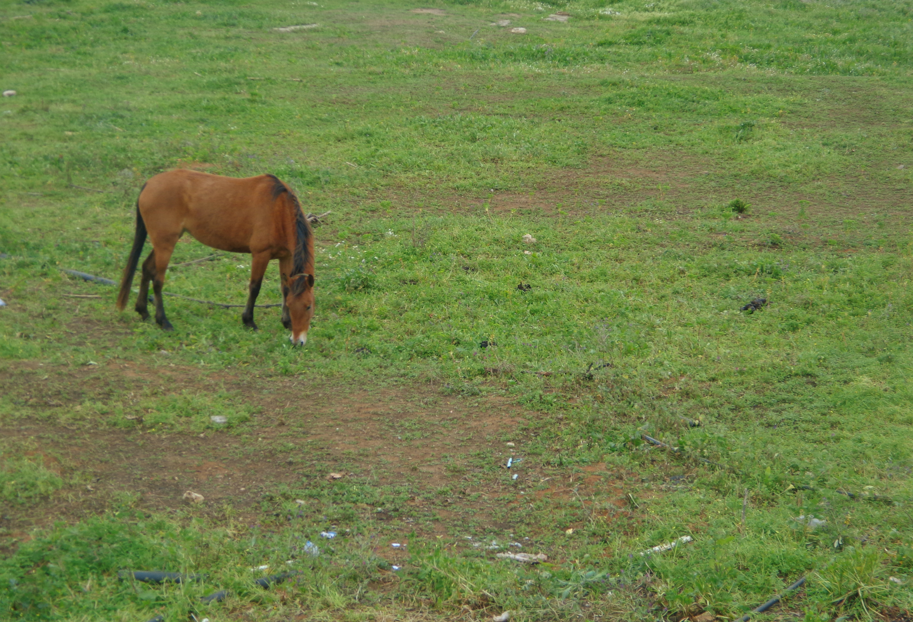 Horse grazing in a field near Olhão, Algarve, Portugal